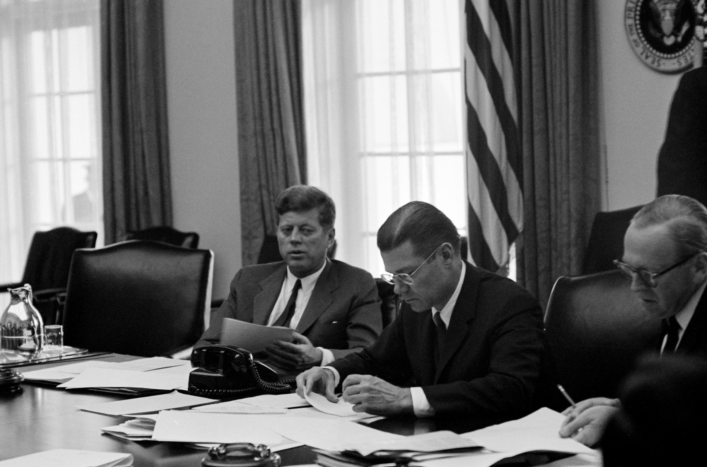 McNamara and Kennedy in a meeting of the Executive Committee of the National Security Council. President John F. Kennedy meets with members of the Executive Committee of the National Security Council (EXCOMM) regarding the crisis in Cuba. (L-R) President Kennedy, Secretary of Defense Robert S. McNamara, and Deputy Secretary of Defense Roswell Gilpatric. Cabinet Room, White House, Washington, D.C.